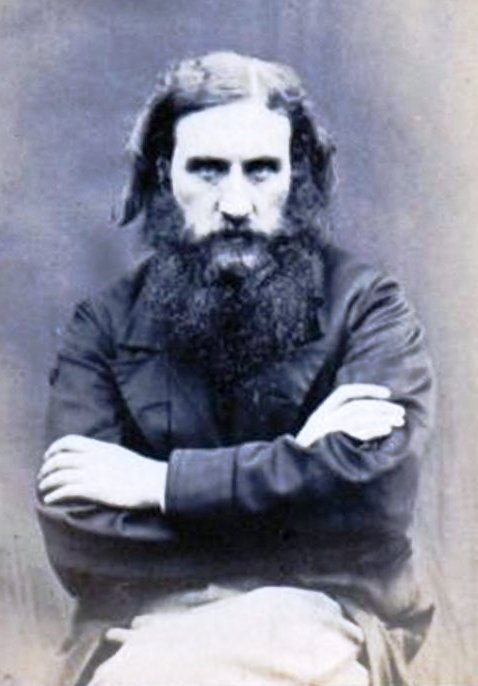 CDV of the Scottish poet and novelist, George Macdonald (1824-1905)